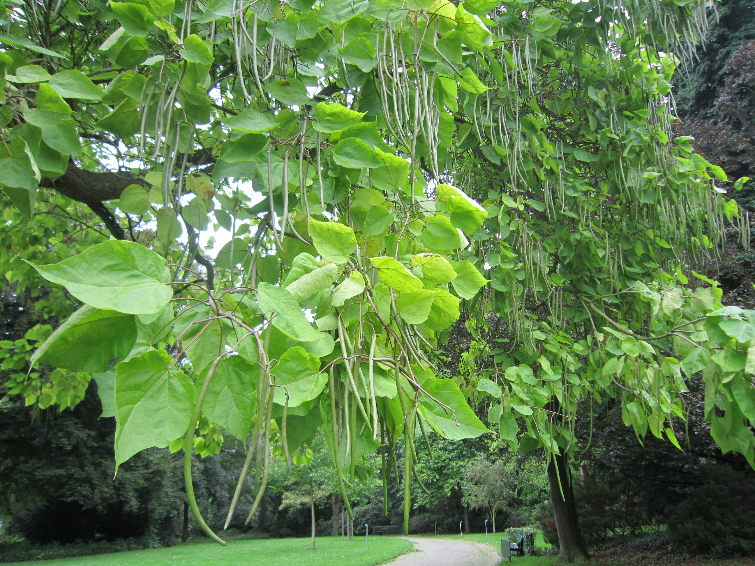 Catalpa bignonioides at Bürgerpark Osnabrück